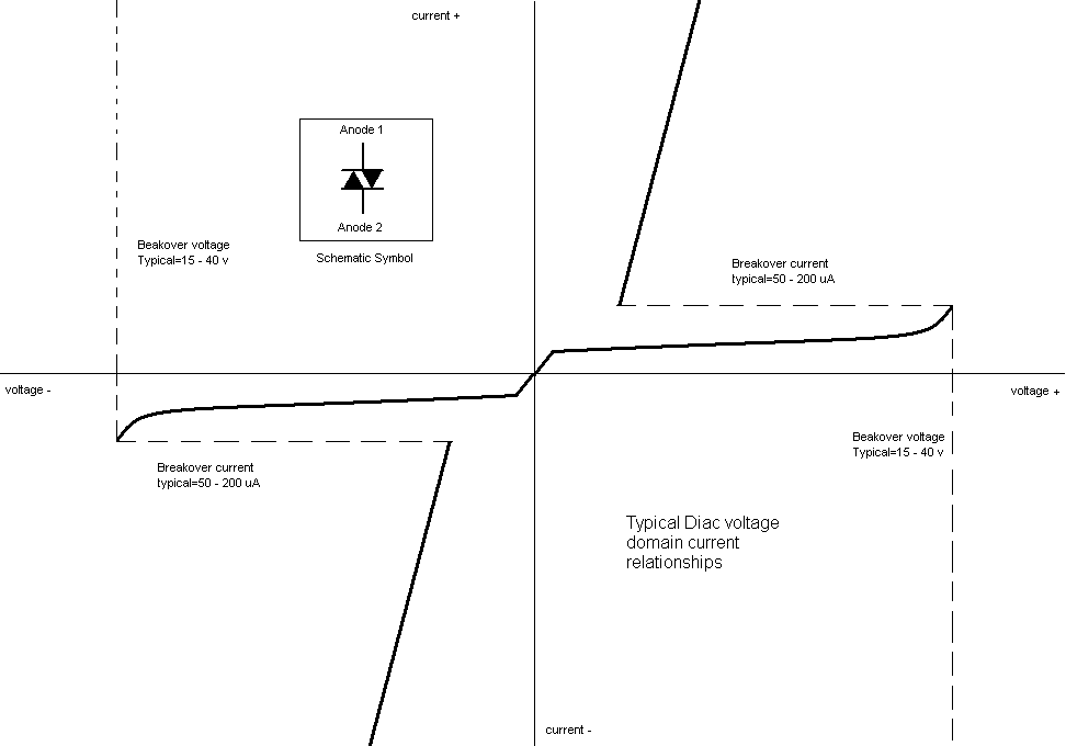 Gdead's image, now converted to 1-bit PNG (as is appropriate for the content), should still be converted to SVG (since it's just lines)